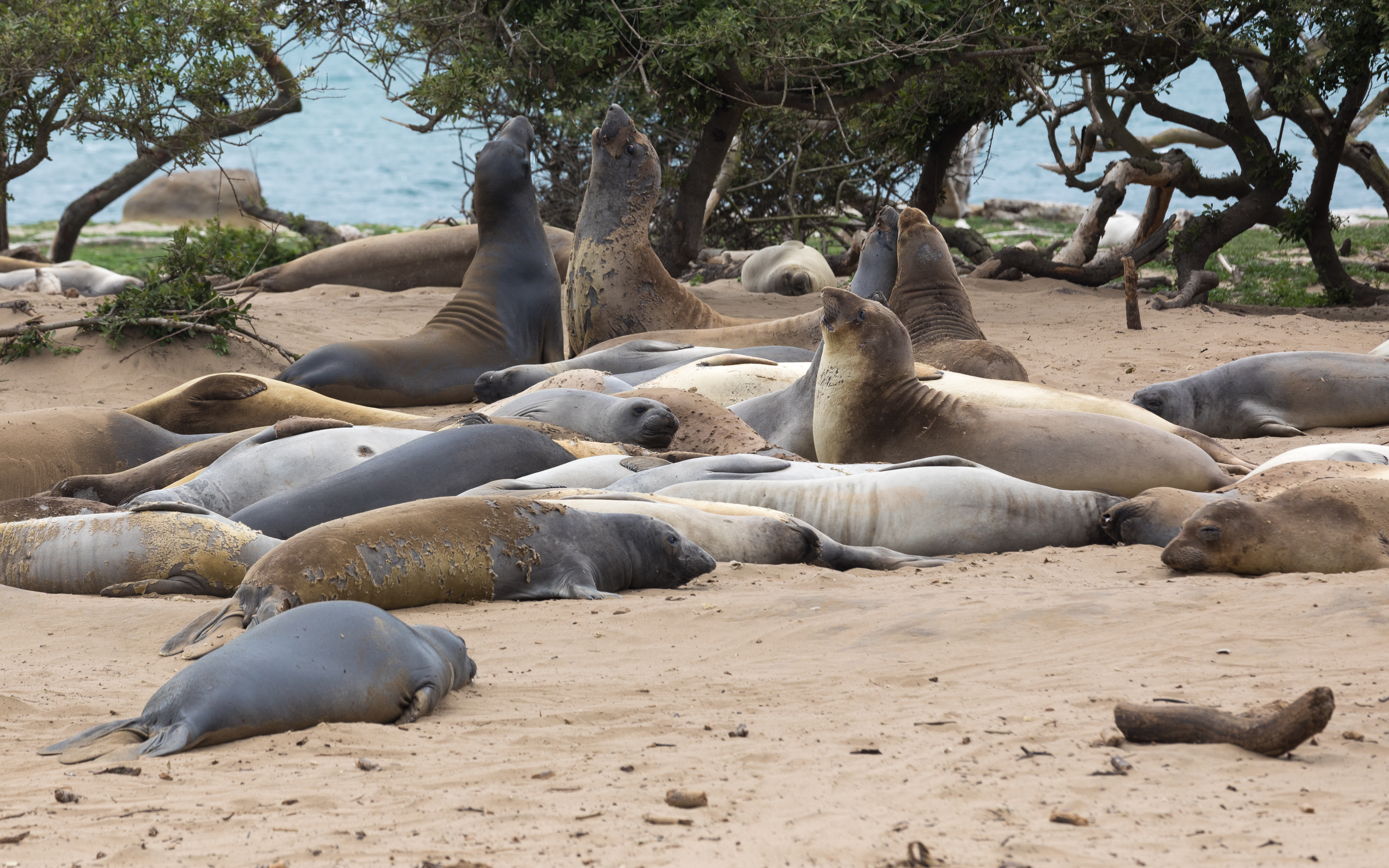 Northern elephant seal colony in Año Nuevo State Park, San Mateo County, California